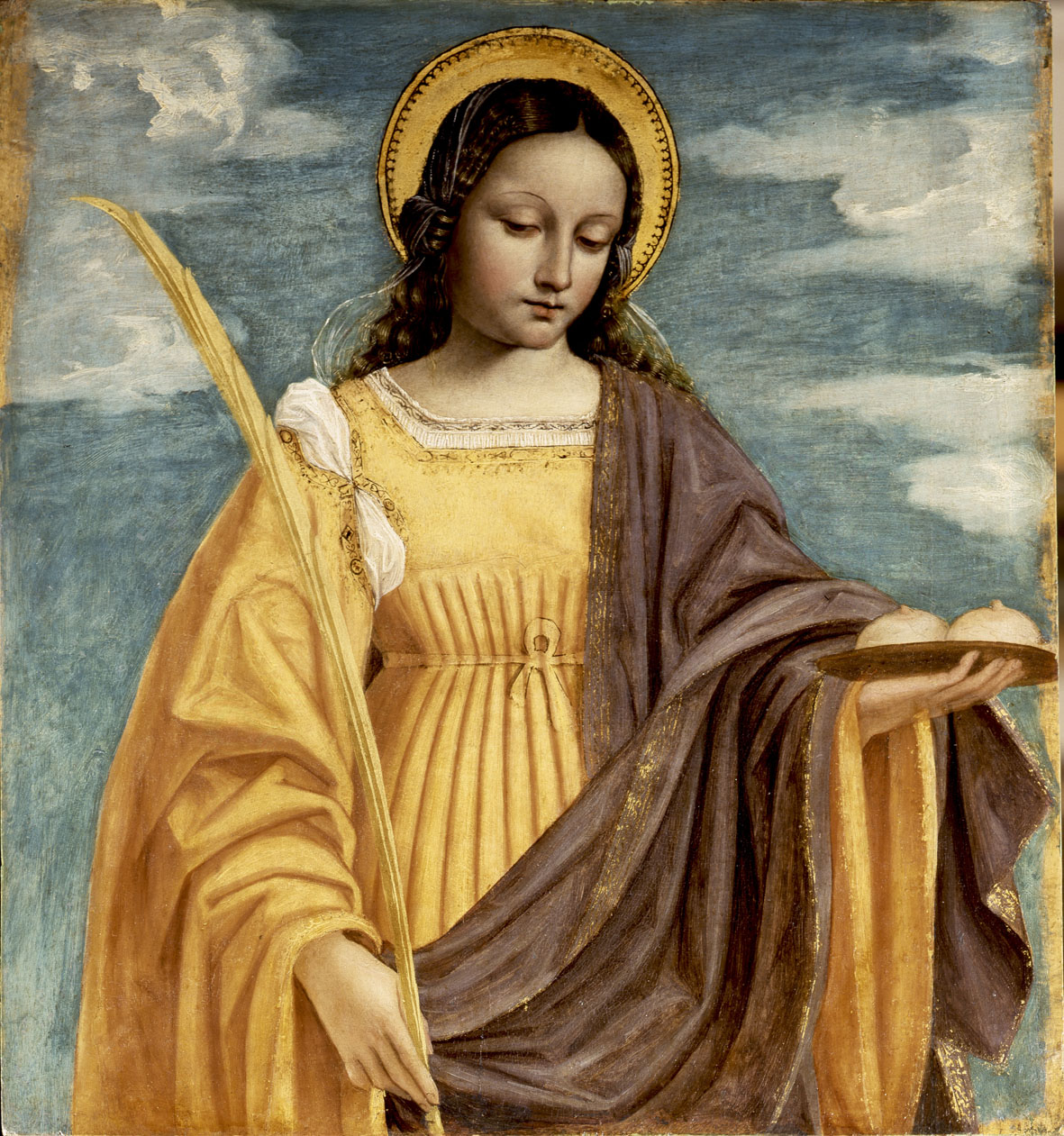 Agatha serving her severed breasts on a platter ((Complesso domenicano di) Santo Stefano, Accademia Carrara, Bergamo, Italy)